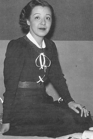 Yoshiko Okada circa 1935